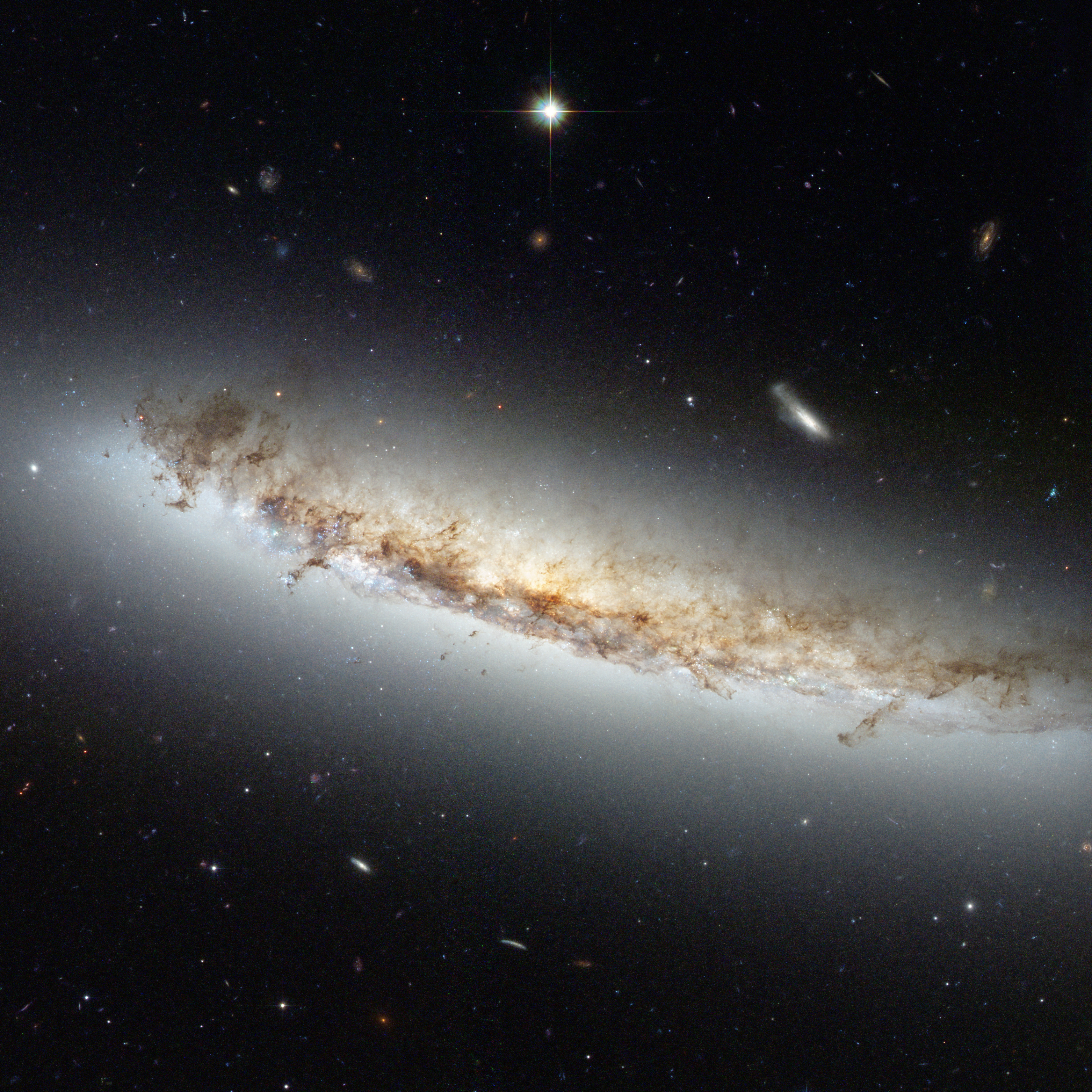 The image of NGC 4402 highlights some telltale signs of ram pressure stripping such as the curved, or convex, appearance of the disc of gas and dust, a result of the forces exerted by the heated gas. Light being emitted by the disc backlights the swirling dust that is being swept out by the gas. Studying ram pressure stripping helps astronomers better understand the mechanisms that drive the evolution of galaxies, and how the rate of star formation is suppressed in very dense regions of the Universe like clusters.